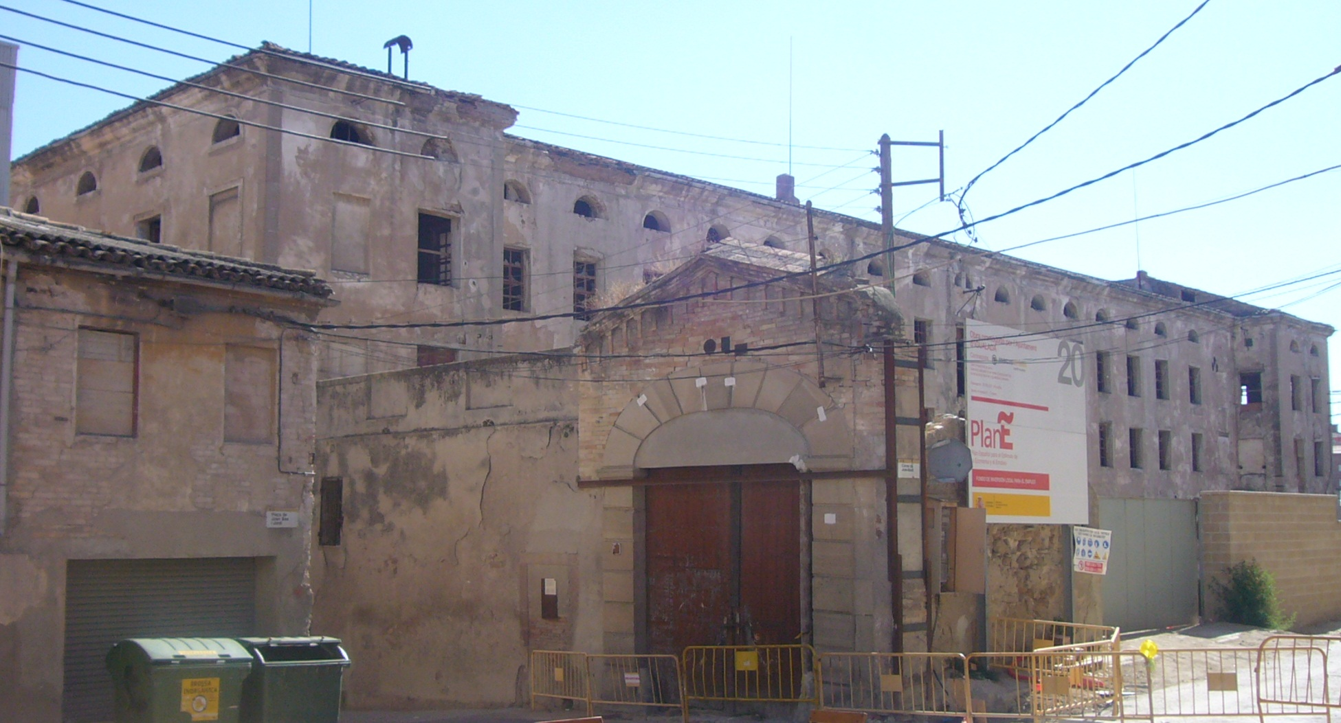 La "Igualadina Cotonera" old cotton factory, built in Igualada in 1841-42 (manchester style)